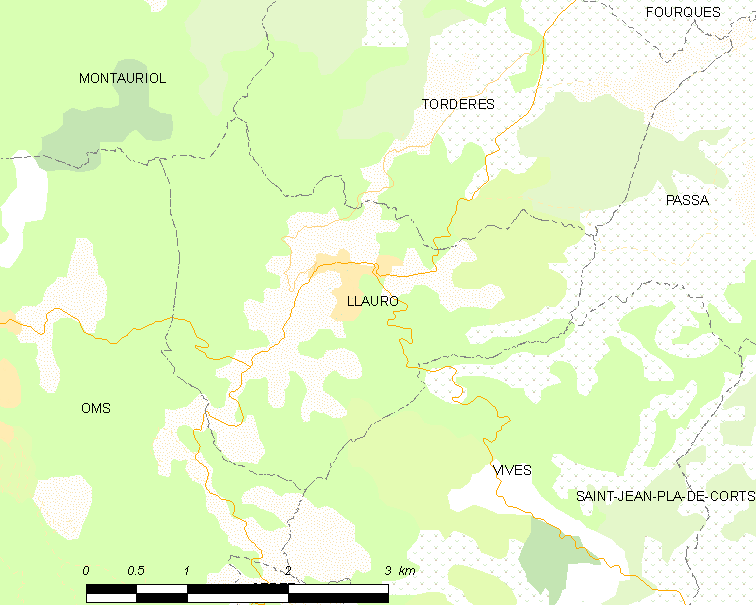 Map of French municipality